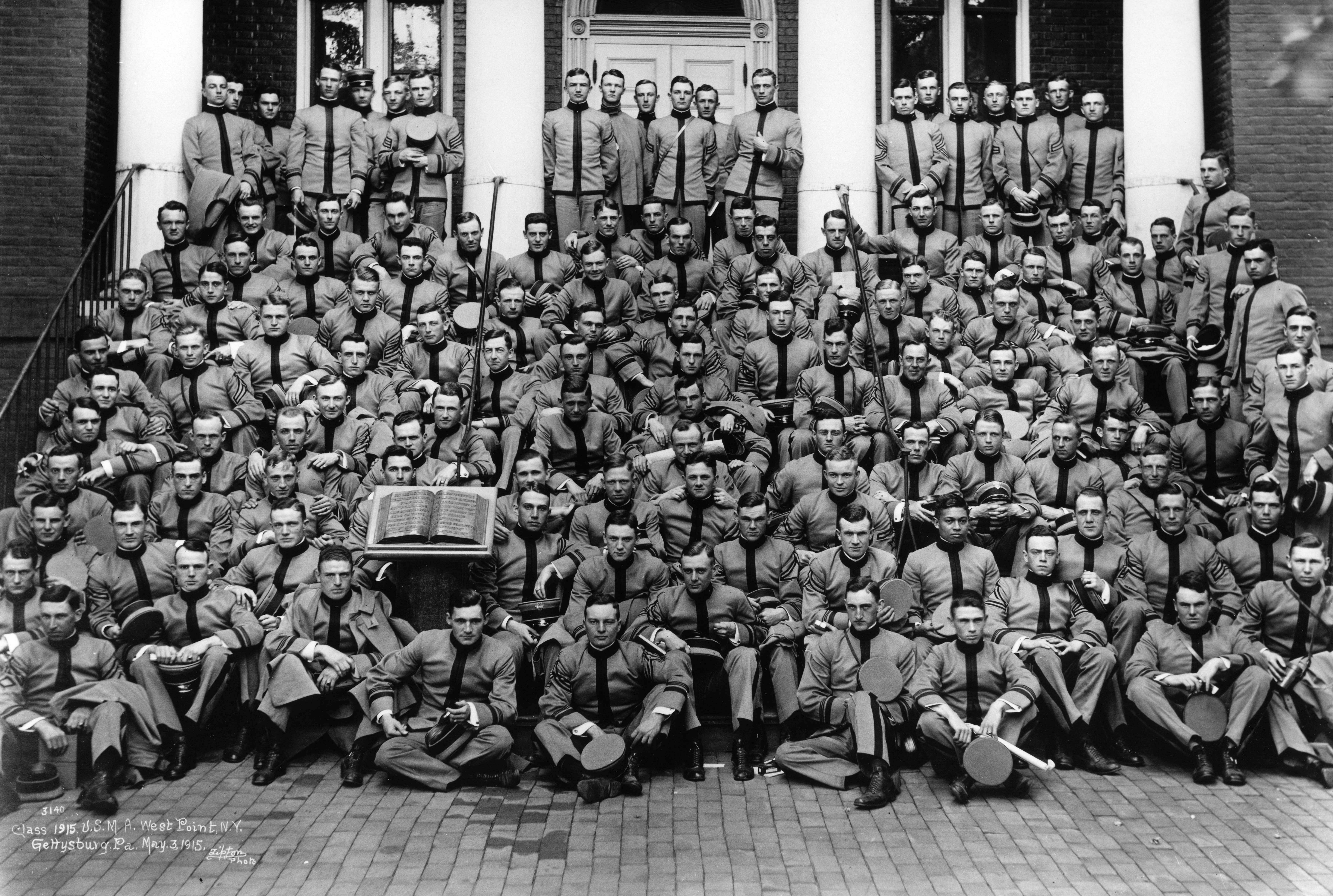 Members of the West Point Class of 1915 which was known as "The Class the Stars Fell On," whose graduates included Dwight Eisenhower and Omar Bradley, posing in front of Christ Lutheran Church in Gettysburg, Pennsylvania, 1915